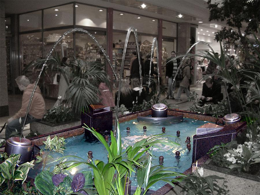 Fountain at the City-Galerie Siegen, a roofed shopping mall